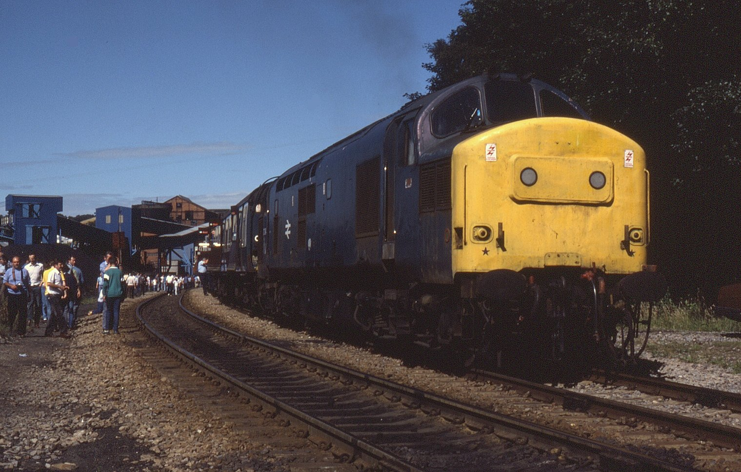 Another 37, another South Wales coal mining branch! This time it was Hertfordshire Railtour's "Valley Basher 3" tour running as 1Z27 from London Paddington to branches north of Newport plus Tytherington in Gloucestershire. Seen here is 37284 at Oakdale Colliery which was on front of the train on leaving here. For the record, 33039 and 33052 were the main train locos for the day. The date was 15 August 1987.